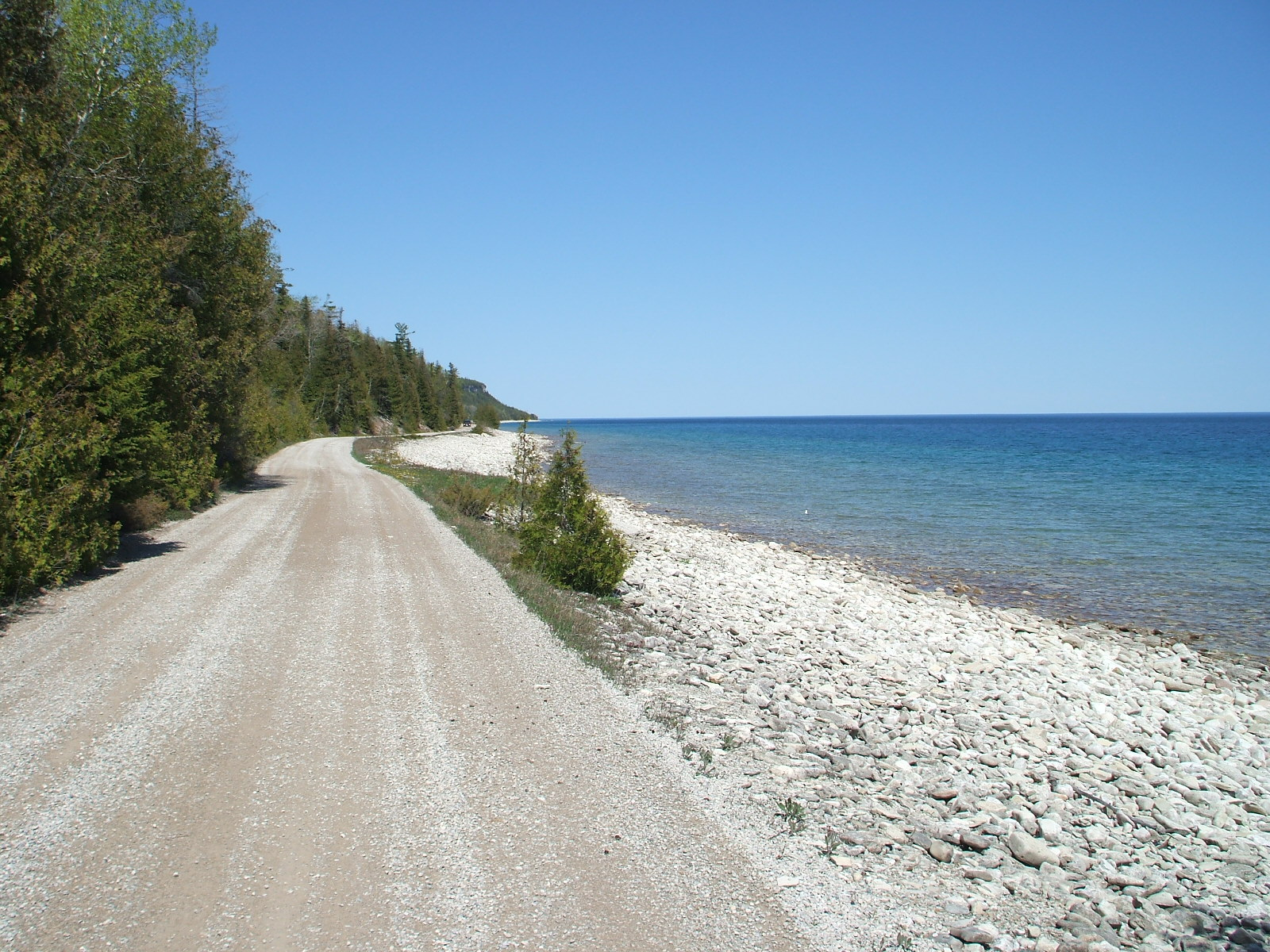 Road between Dyers Head and Cabot Head, Bruce Peninsula, Ontario, Canada